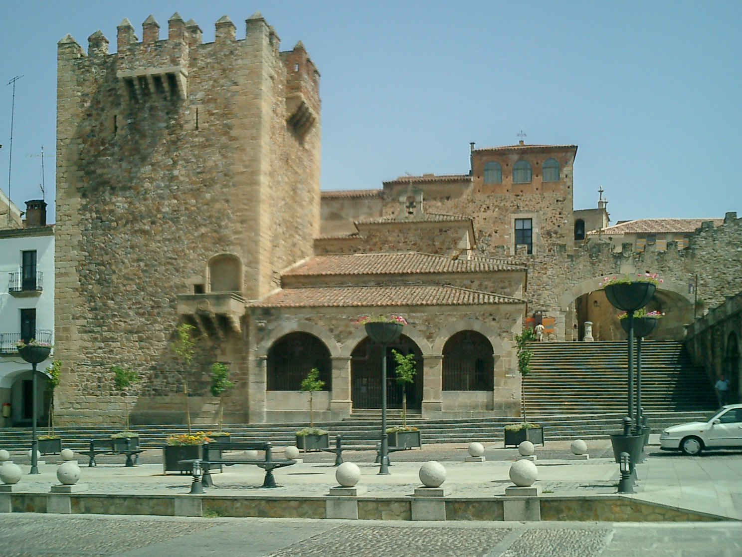 Cáceres, Spain